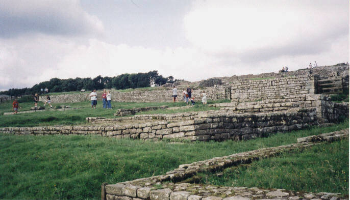 Ruins of four buildings of the civil settlement (vicus) just south of the Roman fort of Housesteads, along Hadrian's Wall.